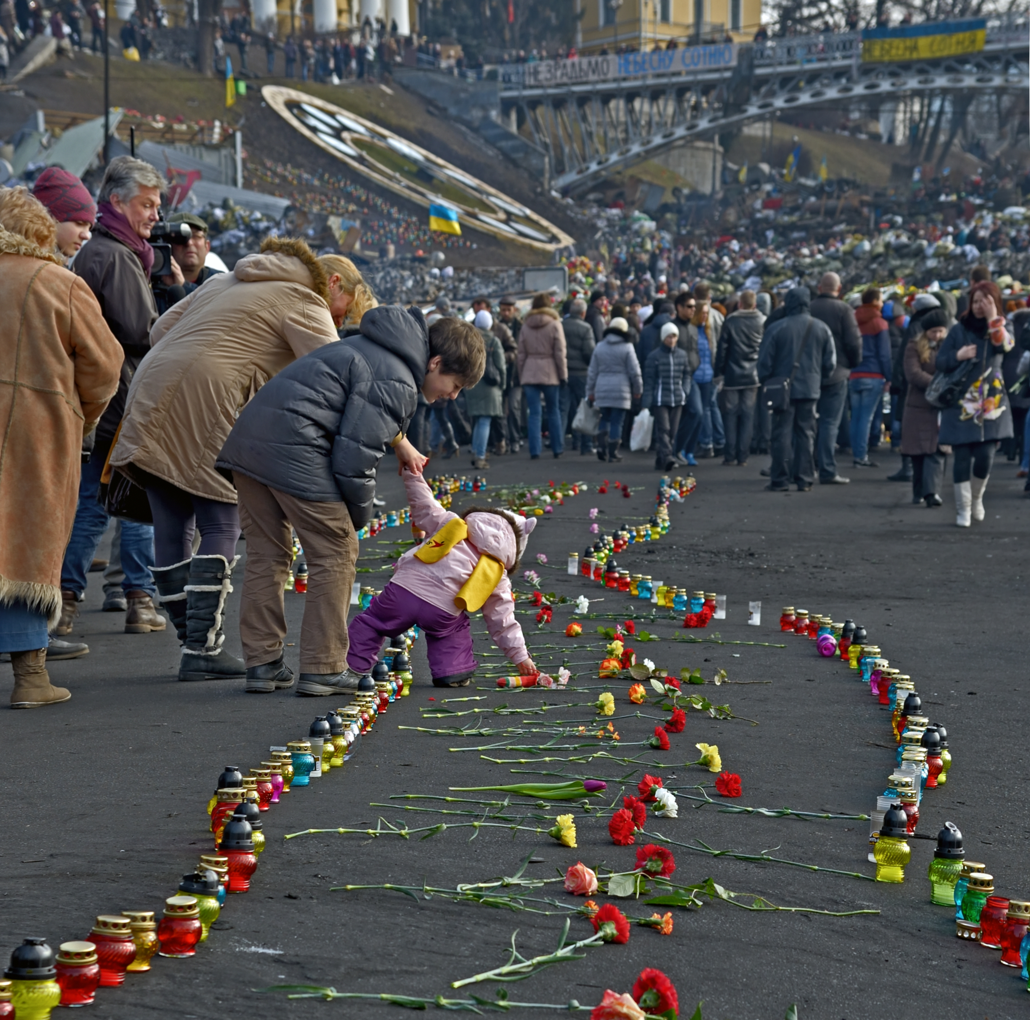 The way of the Euromaidan Heavenly Hundred. Institutska st. Kiev. 24.02.2014